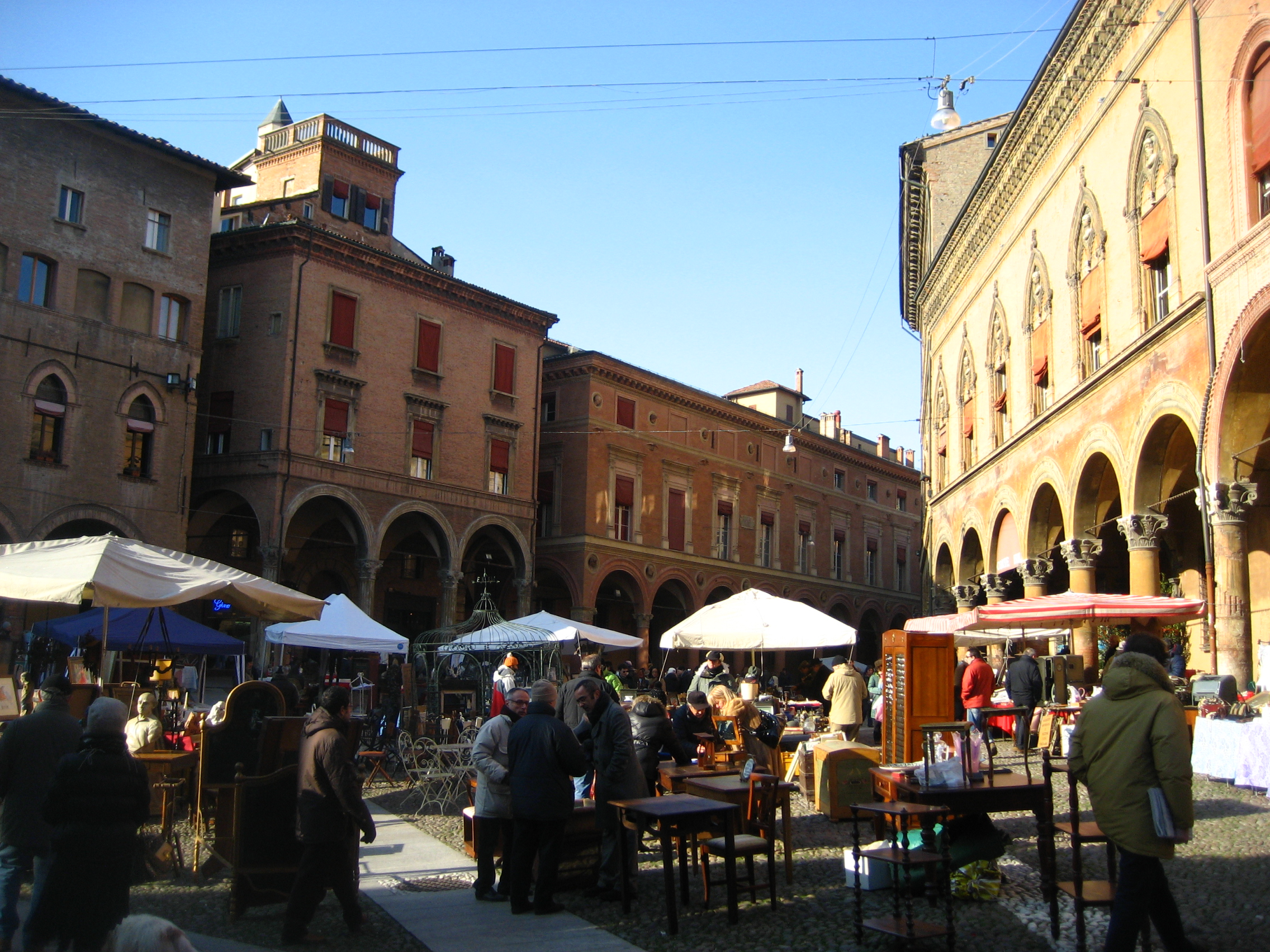 Flea market in Bologna, Italy